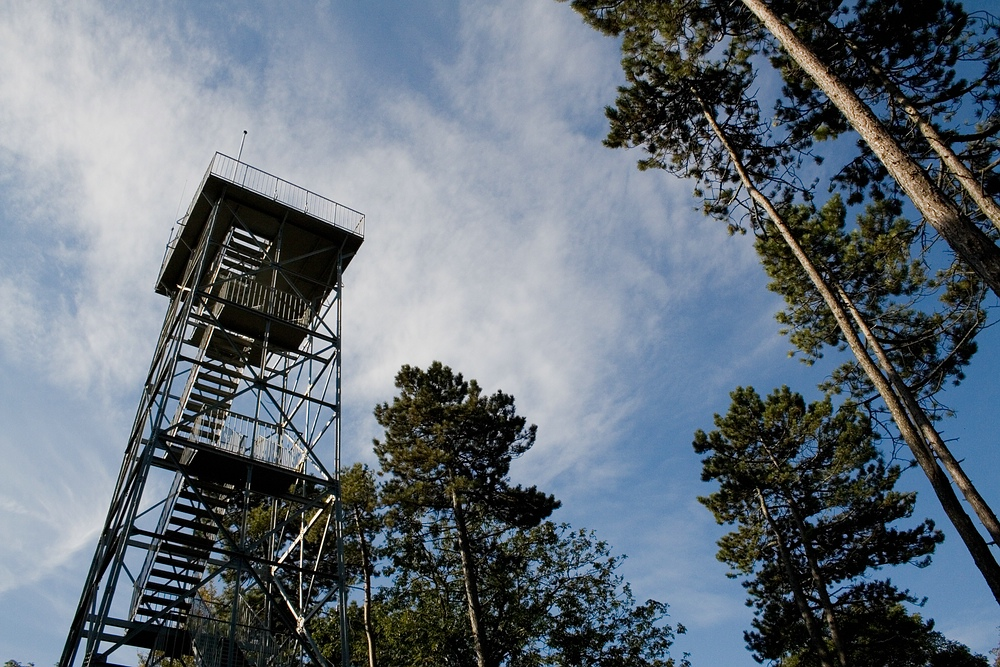 Kellbergturm, Stadtoldendorf